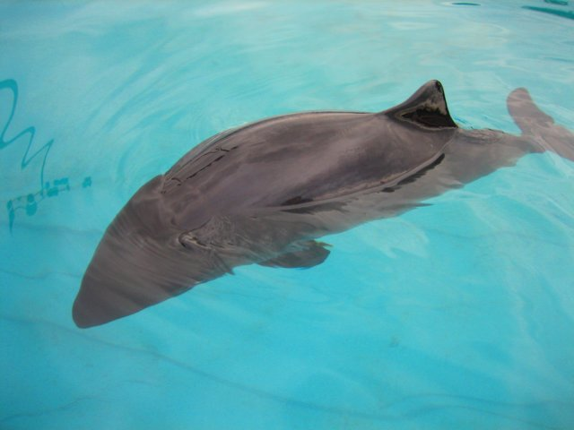 Dwarf sperm whale (Kogia sima) at a rescue facility